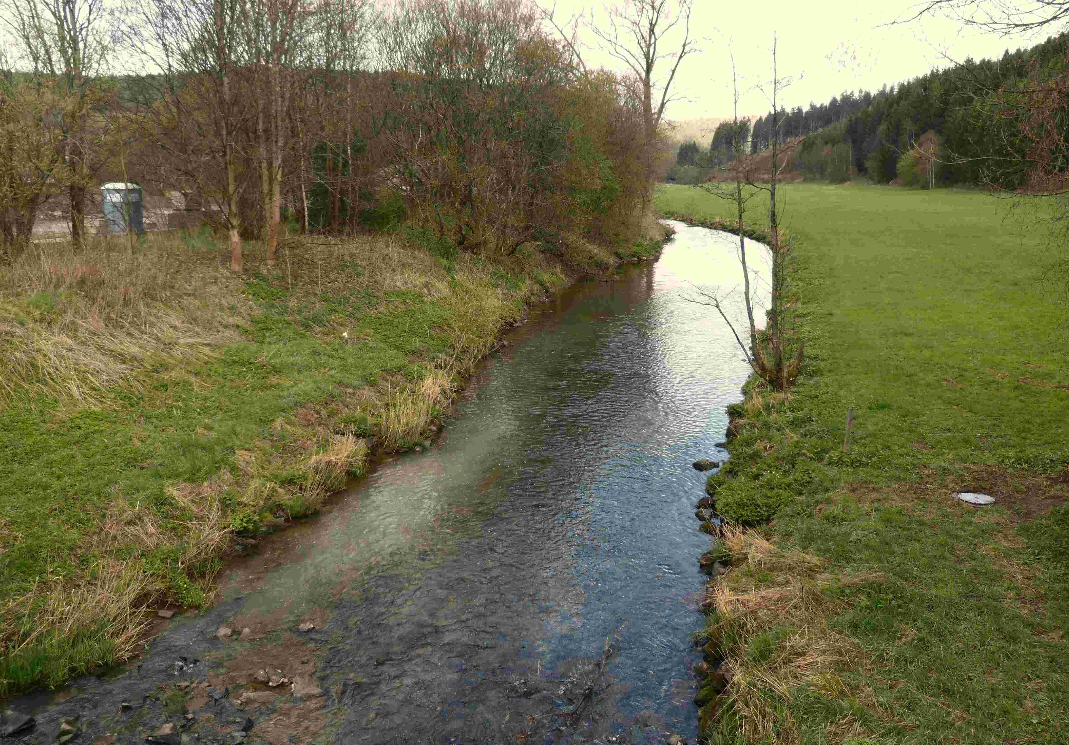 Eder river from the bridge at the Landstraße in Goddelsbach (Erndtebrück), NRW, Germany